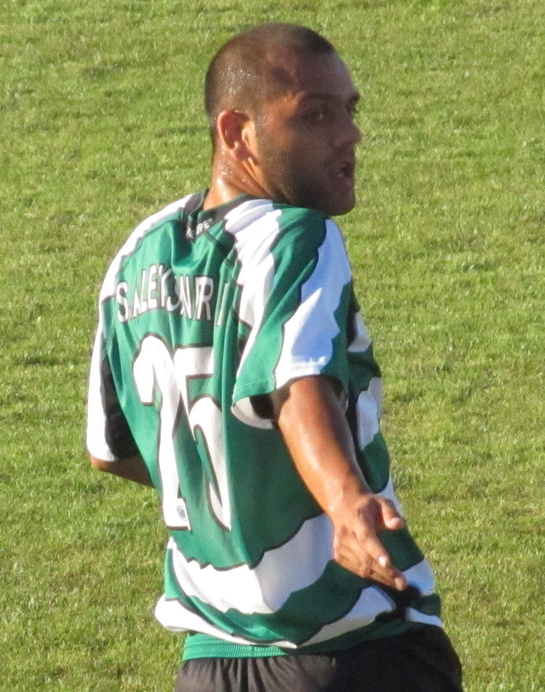 Bulgarian footballer Aleksandar Emilov Aleksandrov